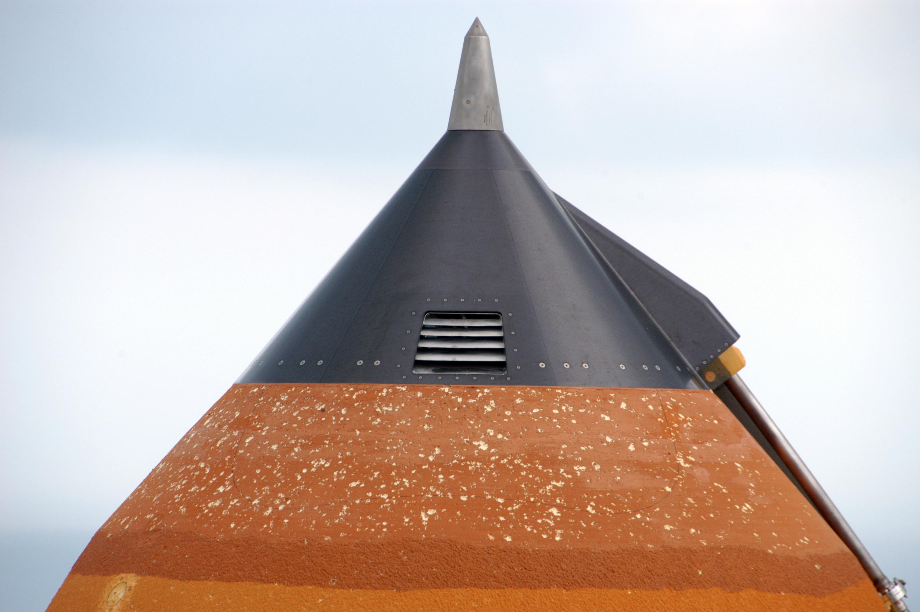 At KSC Launch Pad 39A, the ET attached to Atlantis shows damage from hail bombardment during a strong thunderstorm that passed through KSC